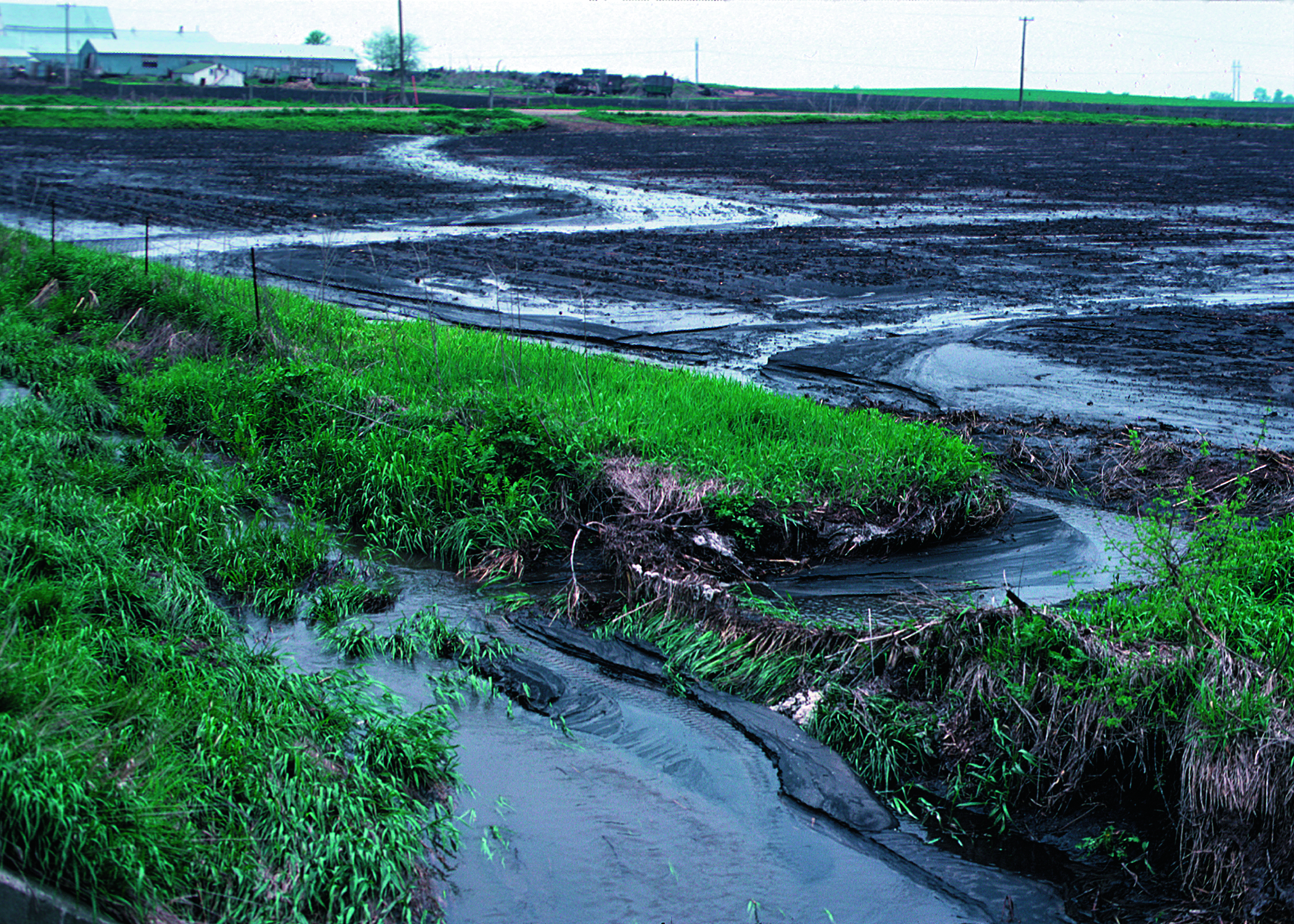 Runoff from a heavy rain carries topsoil from a crop field in central Iowa.